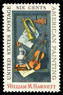 1969 stamp honoring William M. Harnett